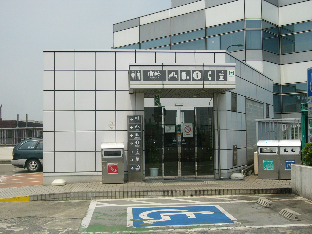 Yoga Parking Area on the Metropolitan Expressway Route 3 in Setagaya Ward, Tokyo, Japan